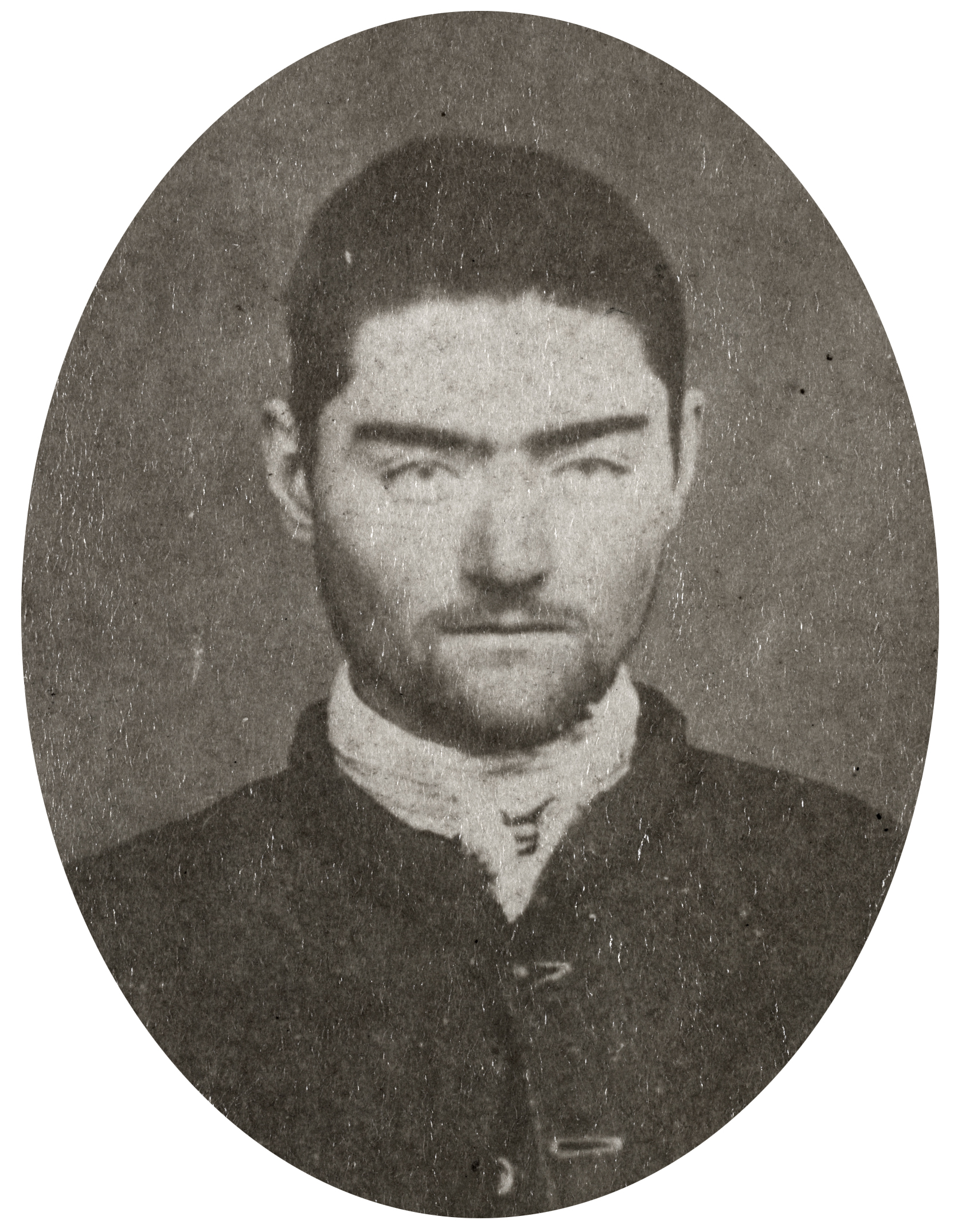 A police photograph of Ned Kelly.